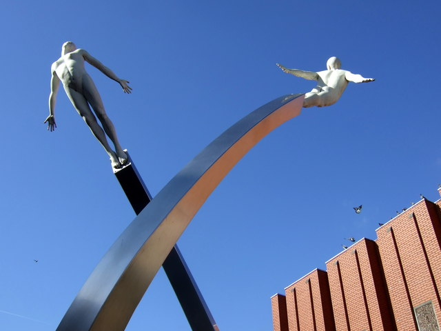 'Discovery' memorial to Francis Crick Francis Crick (1916-2004) was a local boy, born in Weston Favell and educated at Northampton School for Boys, with relatives still living in the town. This stainless steel and resin sculpture, by Lucy Glendinning, was the hands-down winner in a competition for an appropriate memorial to the co-discoverer of the structure of DNA, and represents its double-helix shape. NB. Pigeon just taking off from adjoining building echoes the soaring human figures!